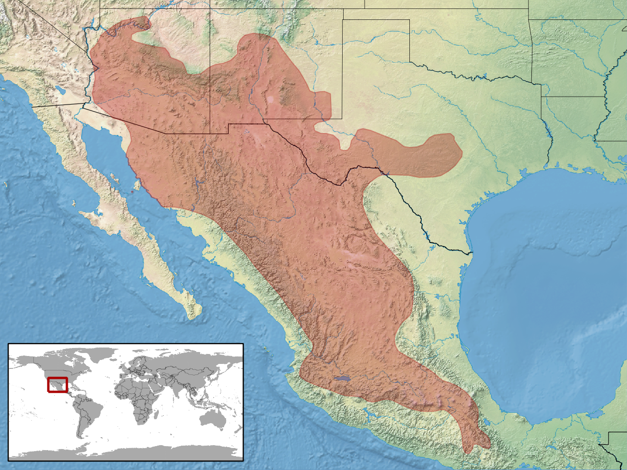 geographic distribution of Crotalus molossus (Native: Mexico; United States). classification according RDB, including Crotalus (molossus) estebanensis as subspecies.